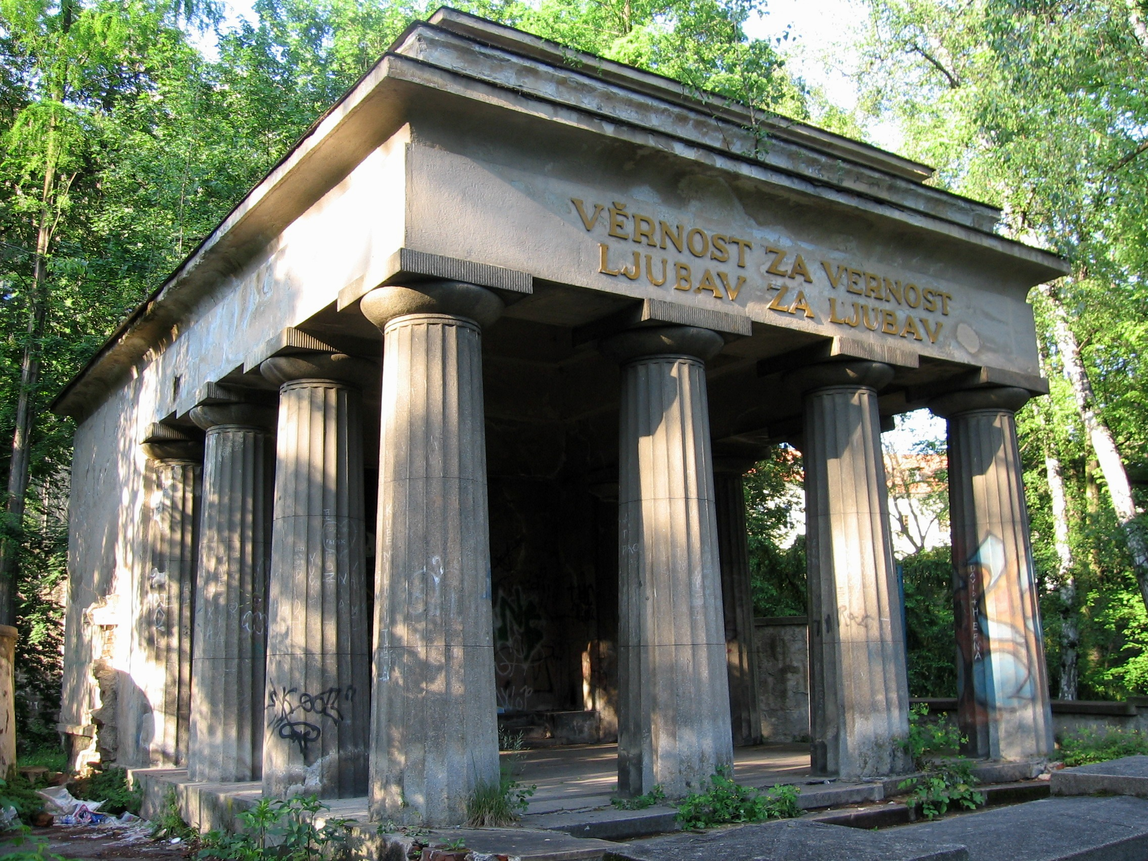 Yugoslavian Soldiers War Memorial in Olomouc, the Czech Republic